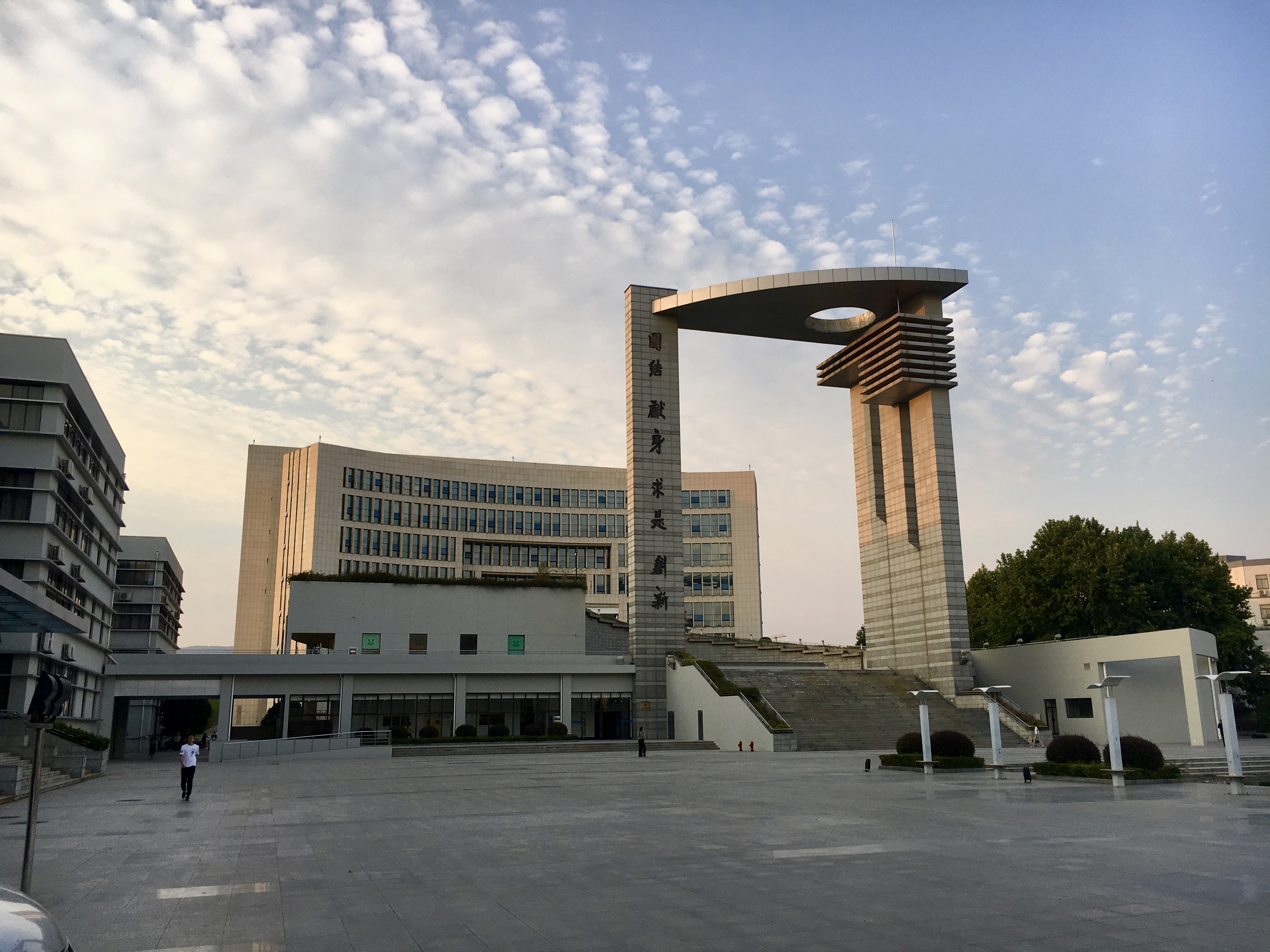 A photo of Yifu building and library of Nanjing University of Science and Technology